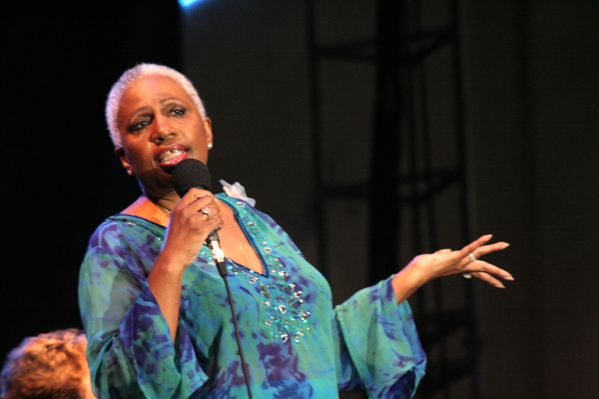 Ethel Ennis